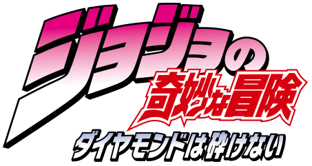 Logo for the third season of the anime adaptation of Hirohiko Araki's comic JoJo's Bizarre Adventure.